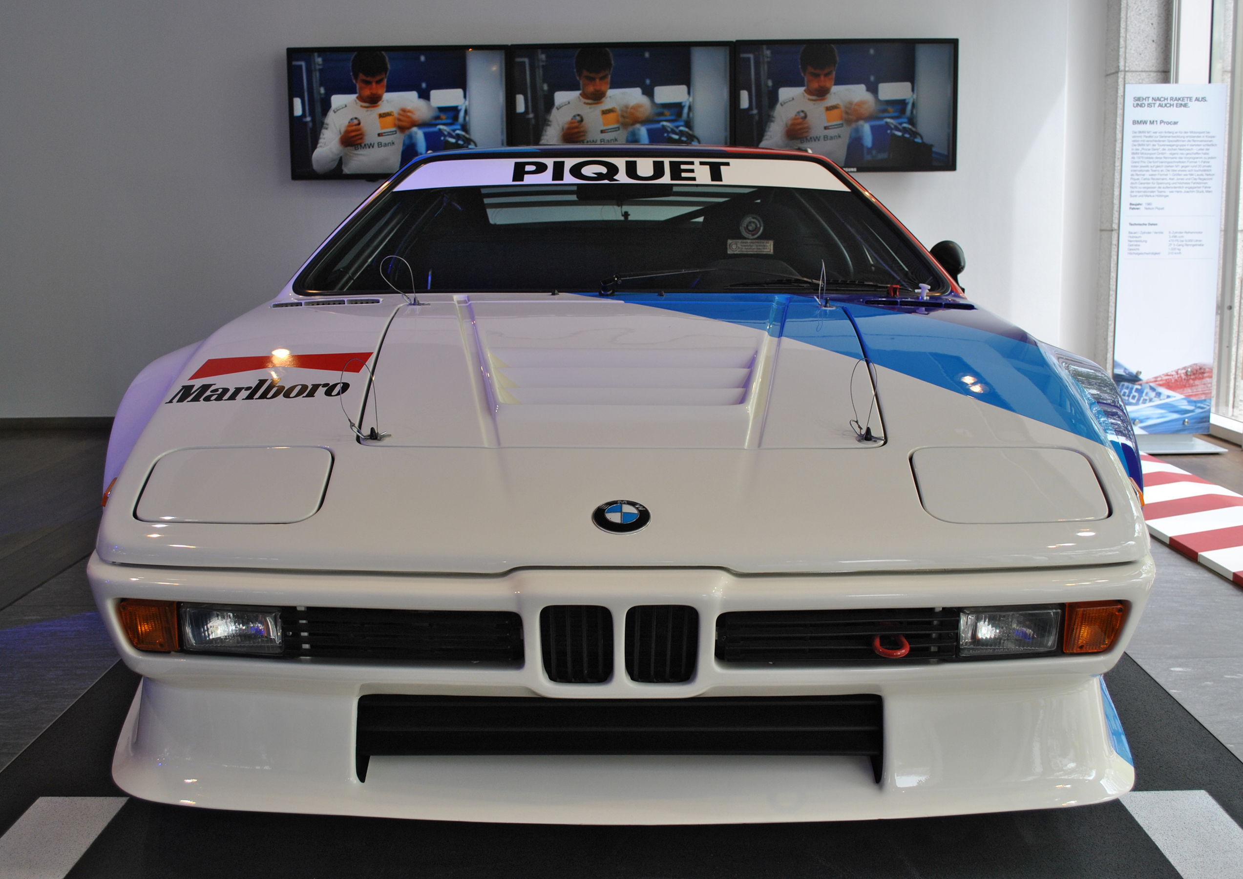 BMW M1 Procar of Nelson Piquet, BMW Kurfürstendamm, Berlin